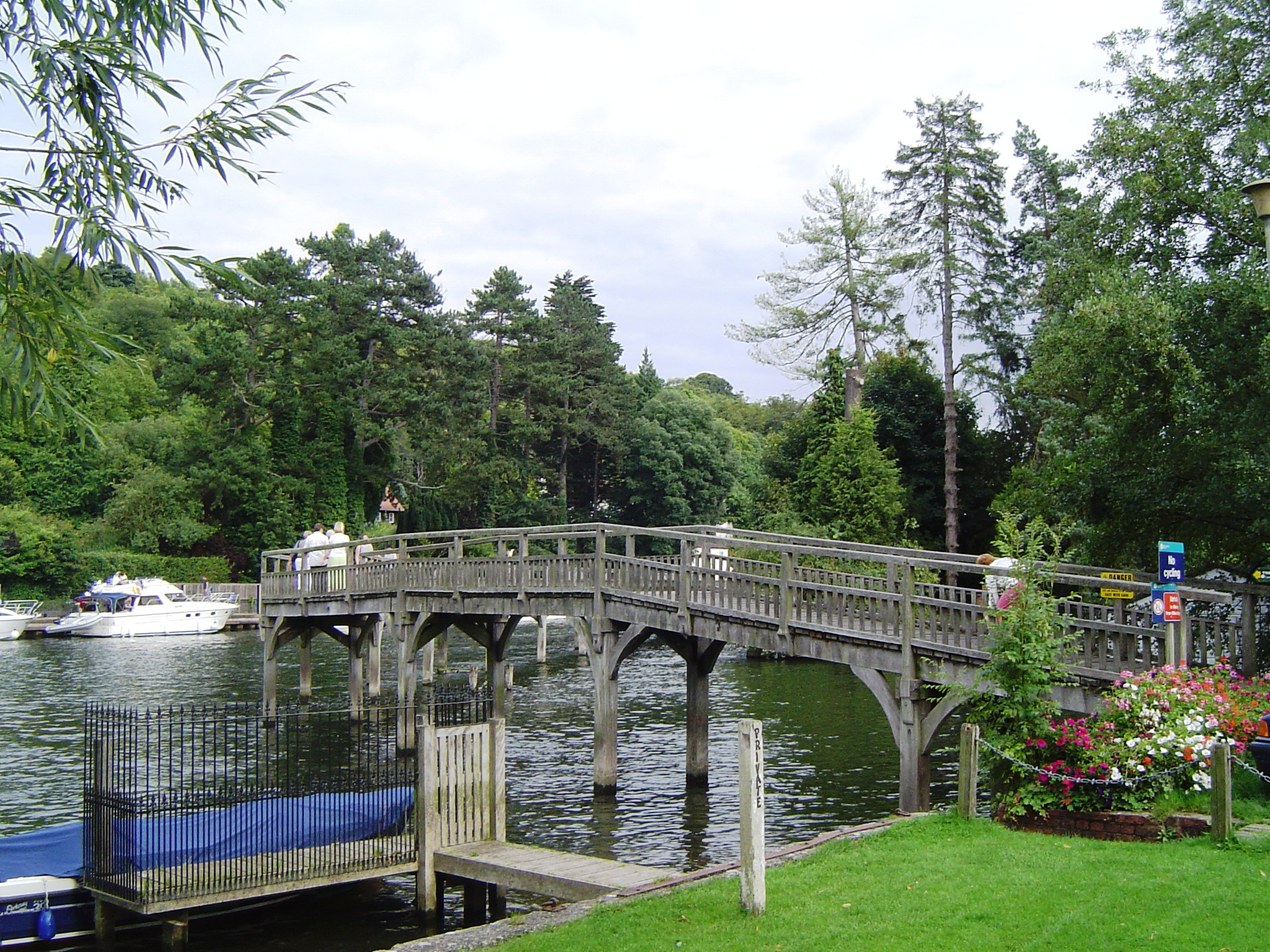 Marsh Lock River Thames downstream footbridge